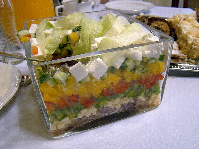 Cuisine of Poland